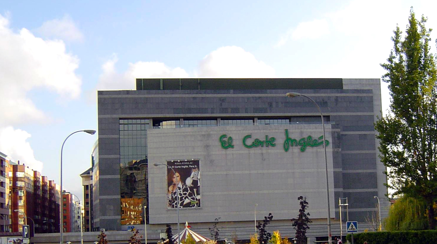 A photo of the "Corte Inglés" shopping mall in Leon. El Corte Inglés is a huge chain of upmarket shopping centres in Spain.